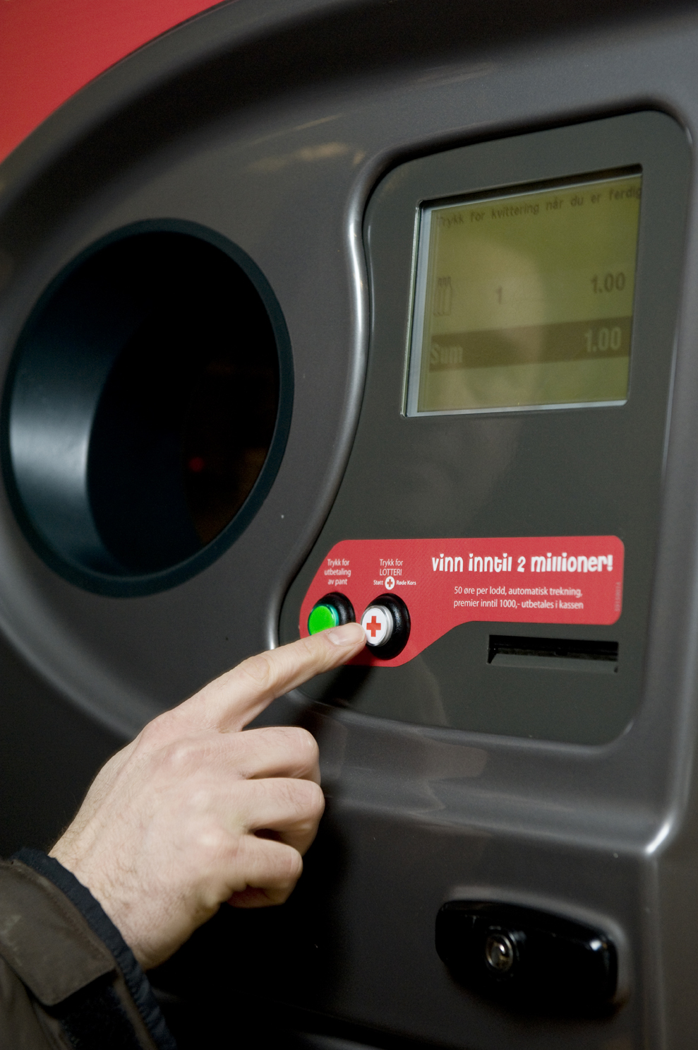 Lottery, bottle reverse vending machine, Norway